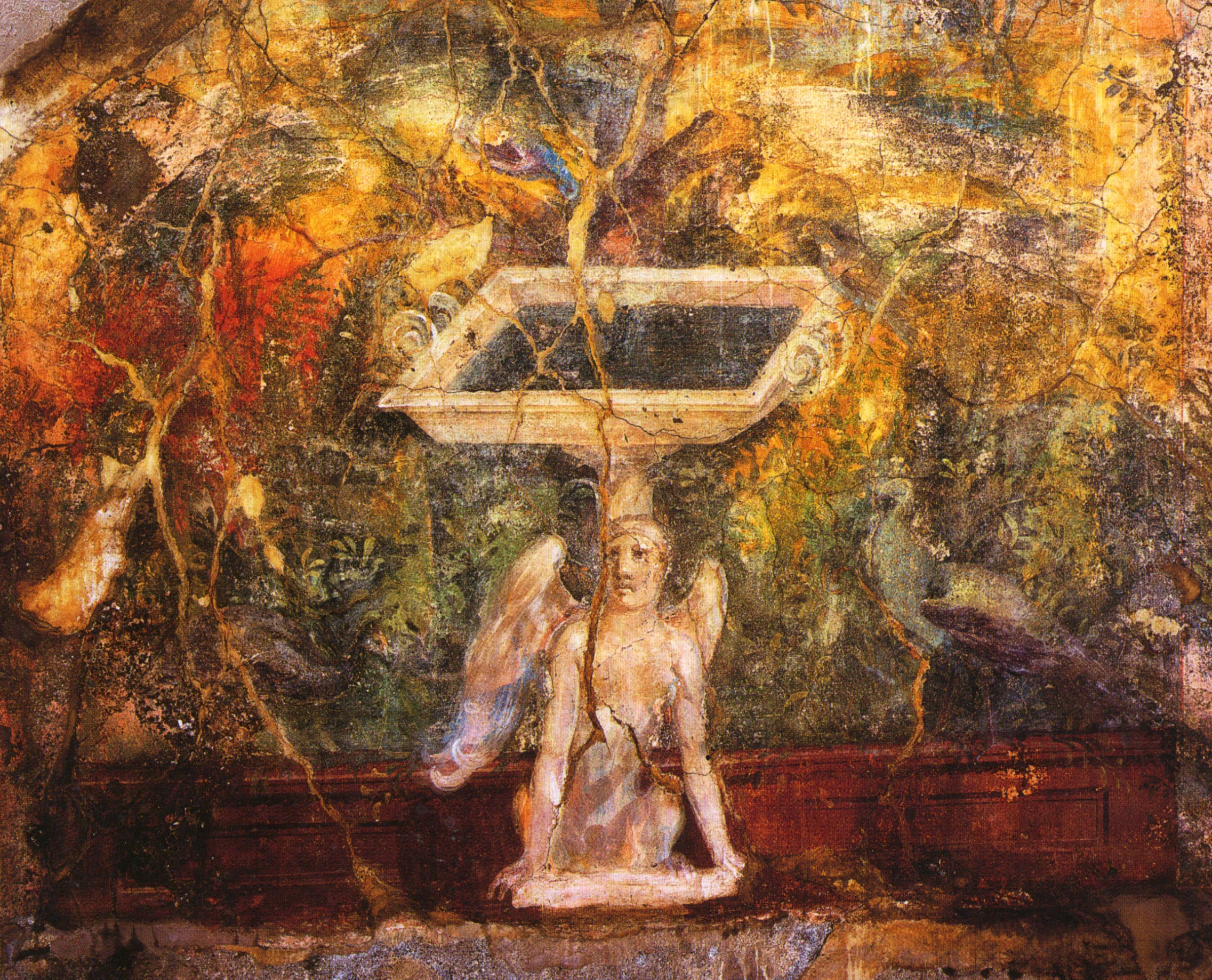 Roman fresco from nymphaeum in the Casa del Centenario (IX 8,3-6) in Pompeii.